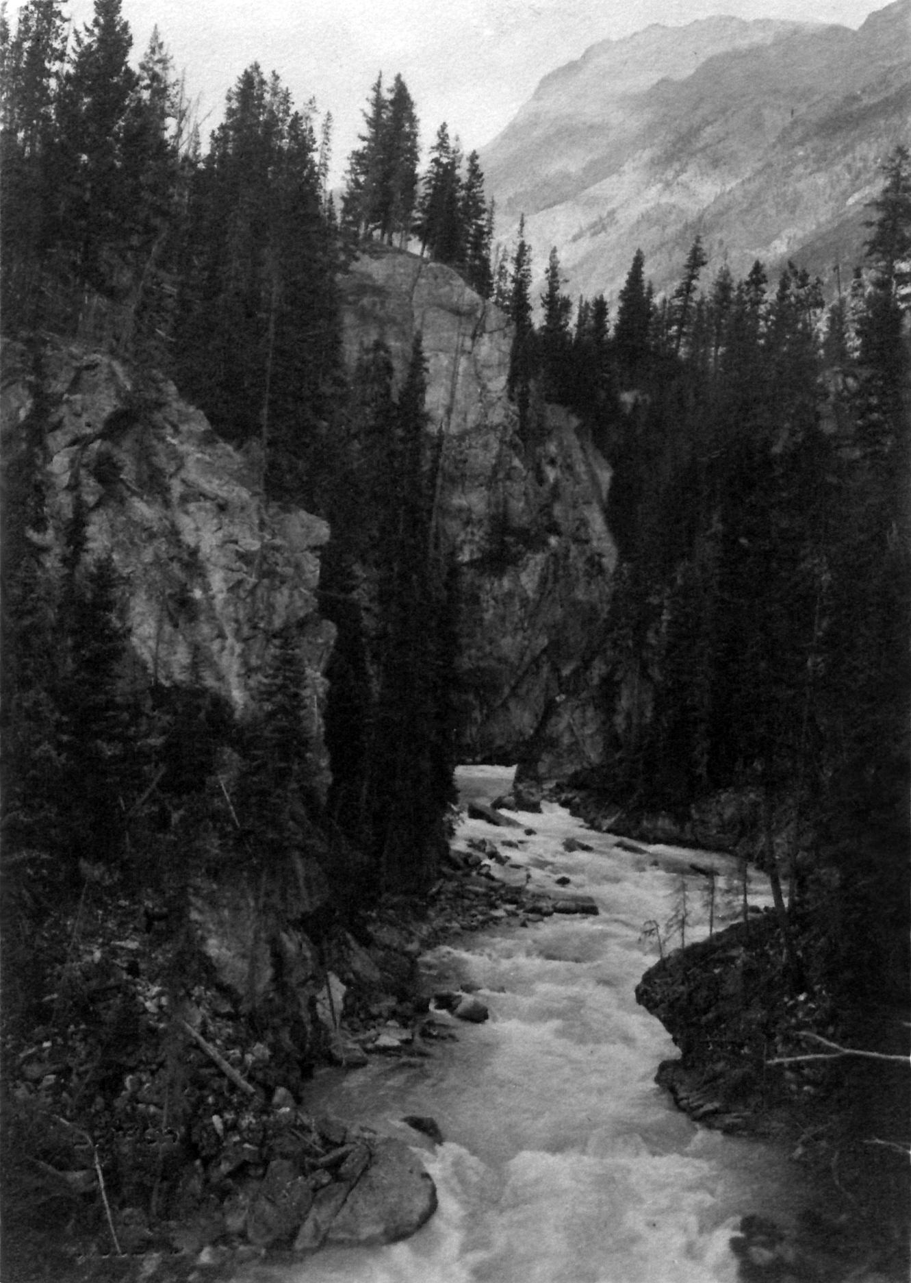 Adjusted version of Moose Canyon (HS85-10-24782) original.tif